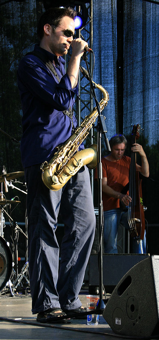 Austrian band Drechsler at the Donauinselfest 2007